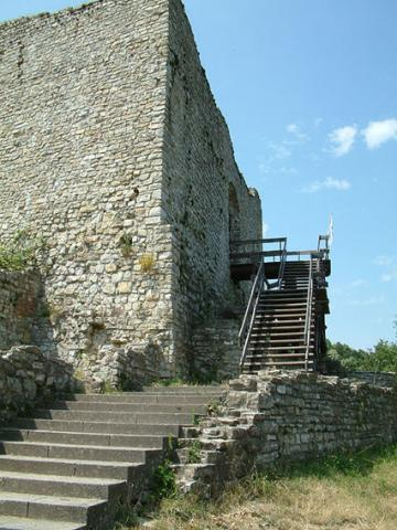 Magyaregregy- castle, Hungary, aerialphotography